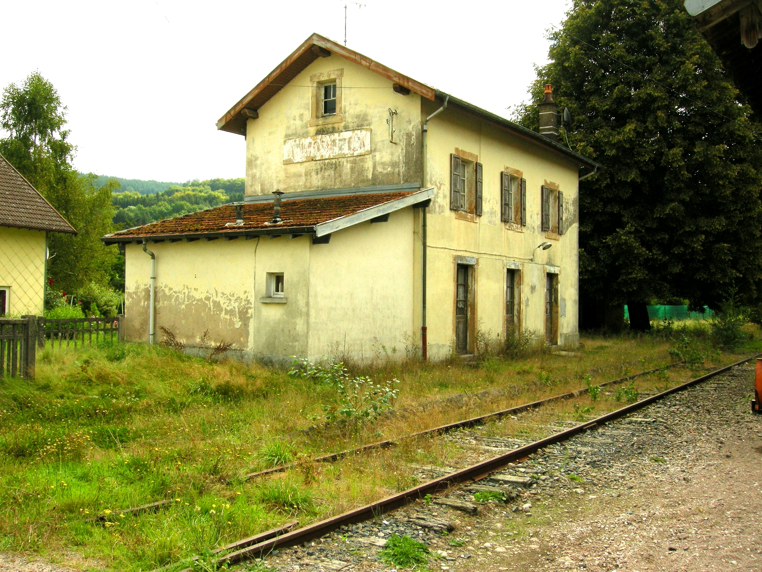 Former railway station of Aumontzey.